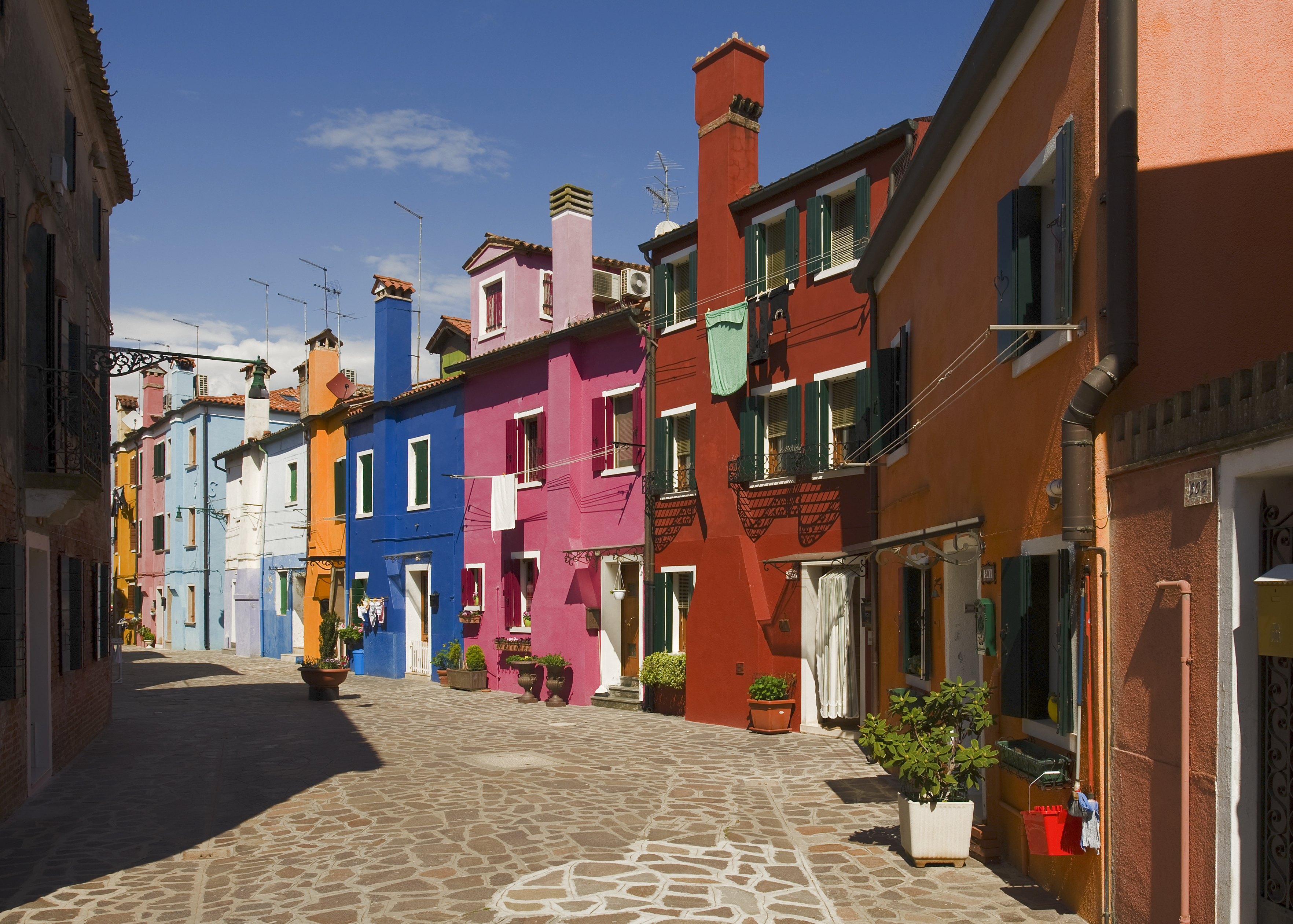 Colourful homes are the norm on the island of Burano, Venice, Italy. Calle di Ghiando